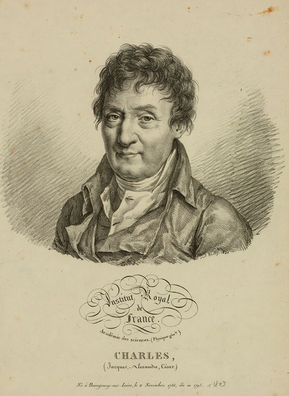 Jacques Alexandre César Charles, French scientist, mathematician, and balloonist. This image is from the Library of Congress online collection, and is in the public domain. It has been cropped for concision.